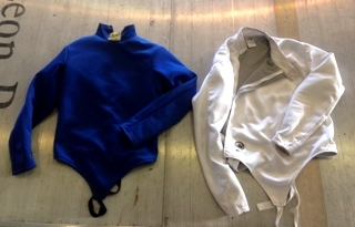 Fencing Jacket